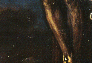 Crucifixion. Coloured flecks.detail